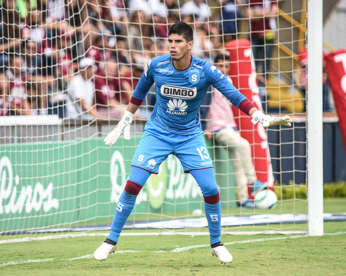 Aarón Cruz playing for Saprissa on July 30th, 2017.